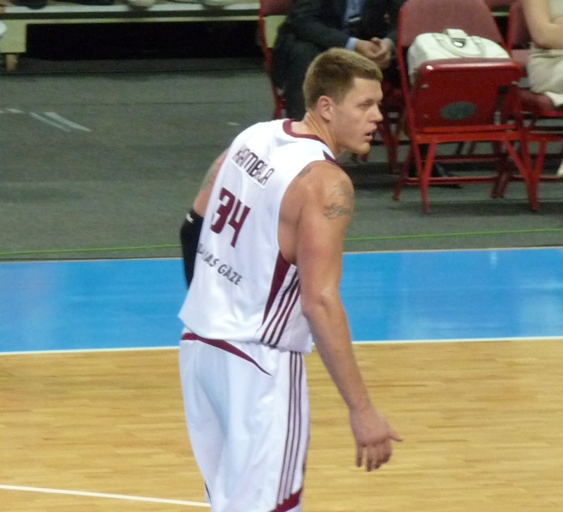 Kaspars Kambala (b.1978). Picture taken during friendly match between Latvia and Sweden.